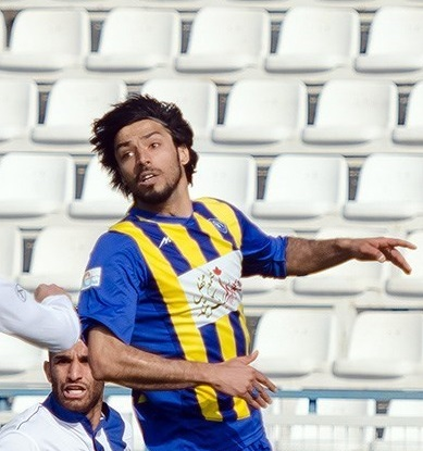 Mehdi Seyed Salehi